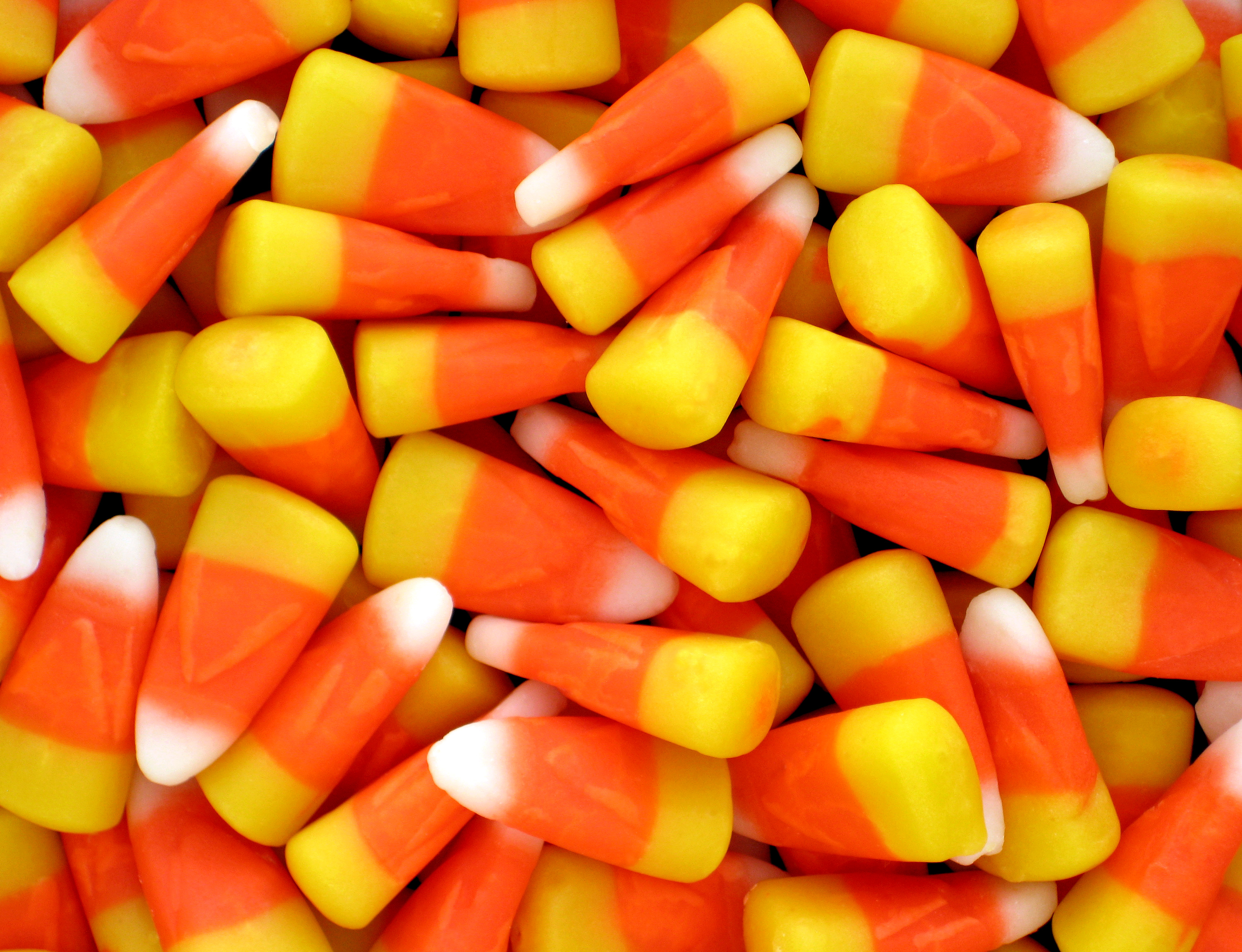 Candy corn, specifically Brach's candy corn.